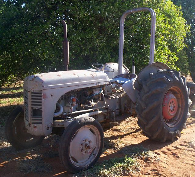 A Ferguson TE20 tractor, located at a citrus orchard in Palinyewah, New South Wales, Australia